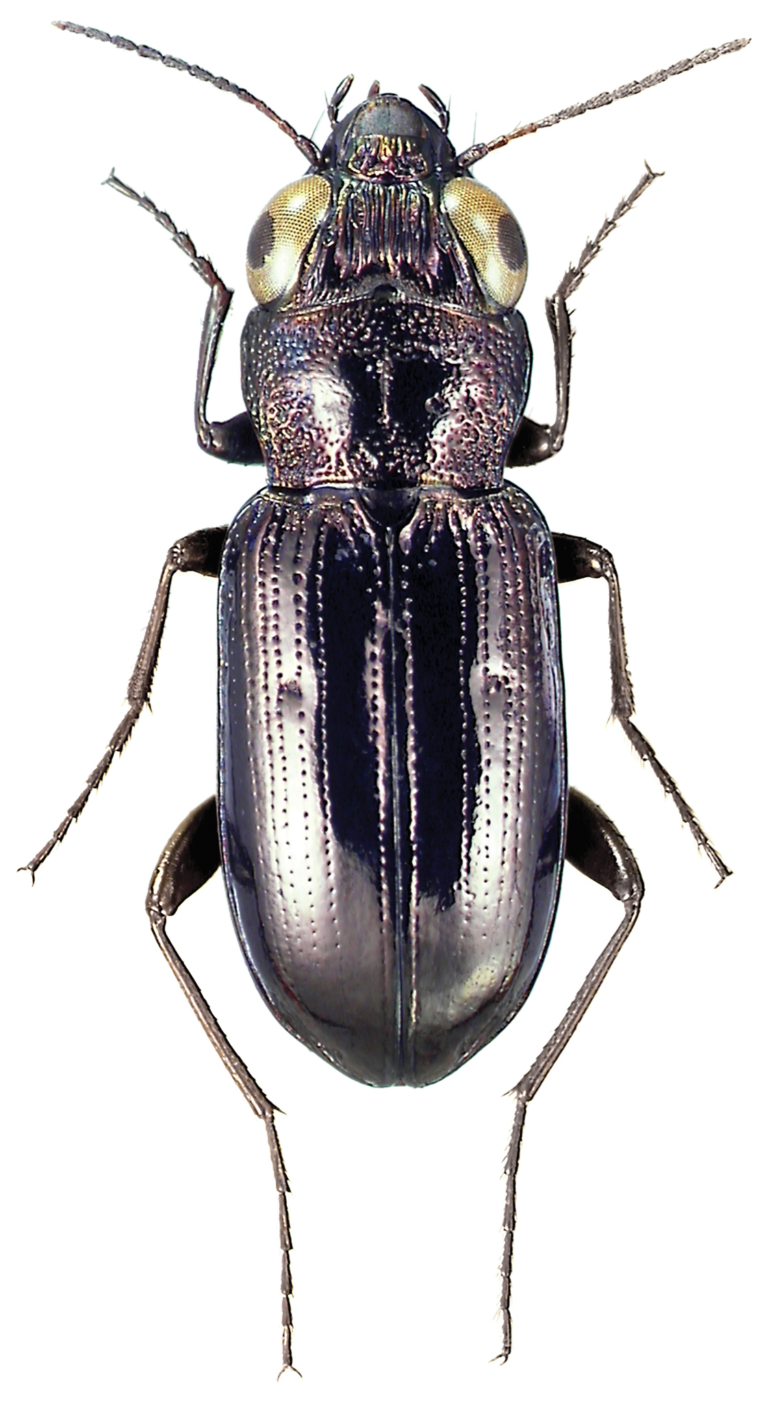 Notiophilus aquaticus (Linnaeus). This species is an example of a circumboreal taxon; it is found in the Northern Hemisphere without major gaps north of latitude 45. Linnaeus gave this species the epithet aquaticus in the 10th edition of his Systema Naturae, published in 1758, on the assumption that the species lived close to water. We know today that this is not the case and the species is found in relatively dry, open habitats. Notiophilus larvae and adults prey on collembolans. The adults are challenging to catch by hand because of their small size and swiftness.